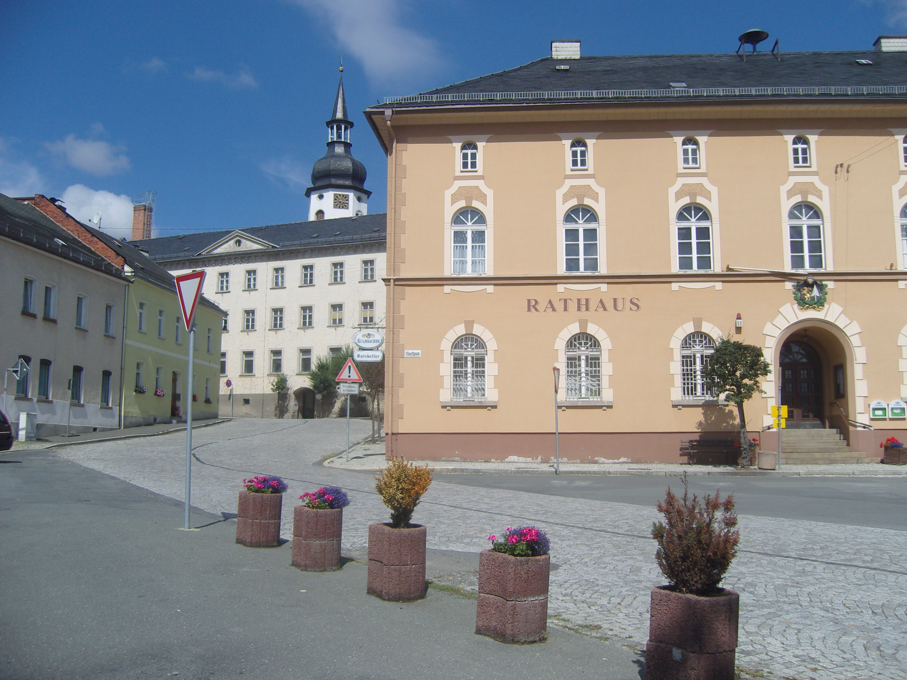 Church, old school and mayors office in Tanna, Thuringia, Germany.